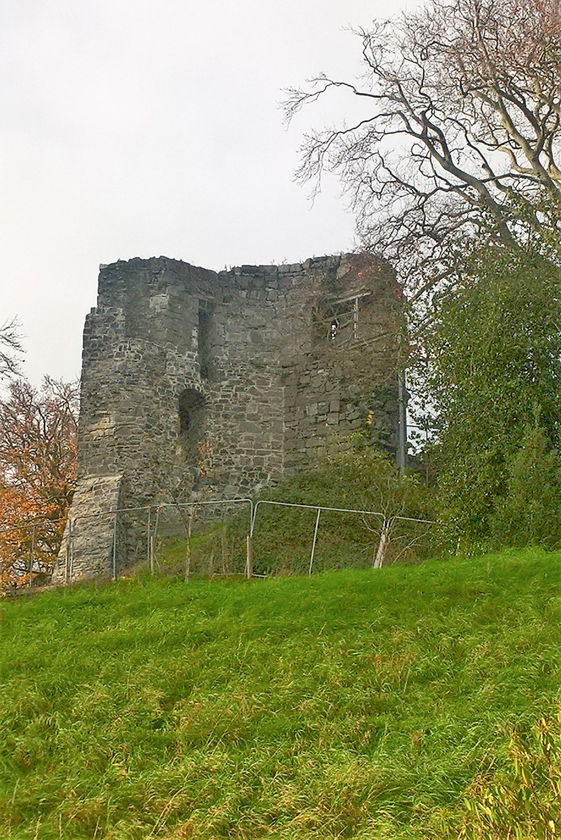 Castleknock Castle atop the motte. To the west of Castleknock College.